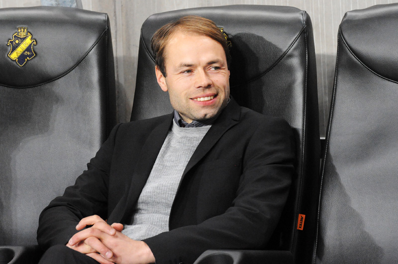 AIK trainer Andreas Alm during the match AIK-Malmö FF